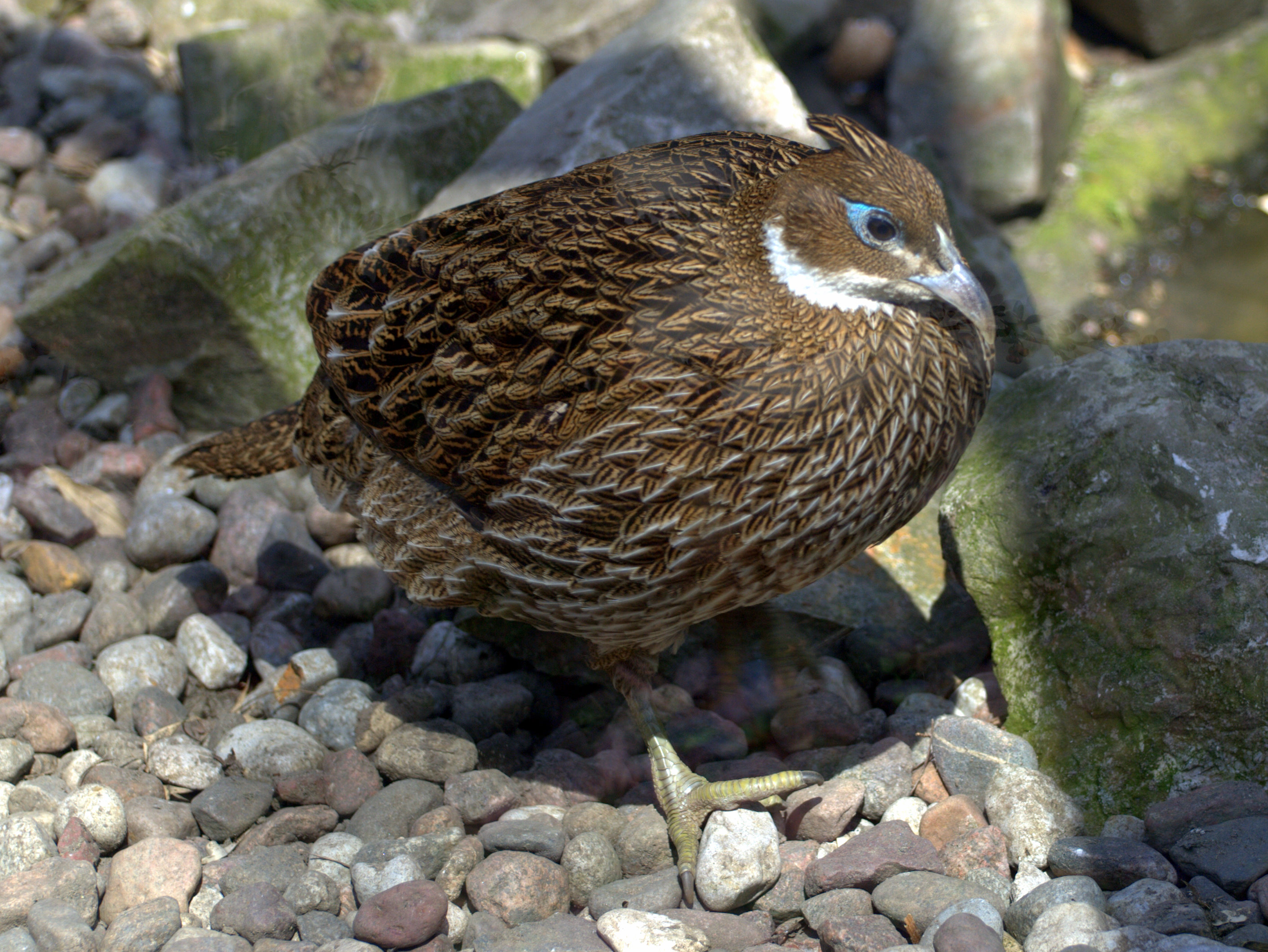 Himalayan Monal